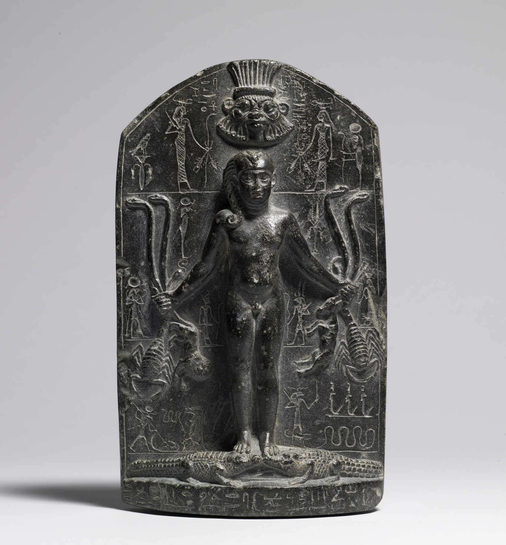 Horus the Child stands on crocodiles and controls snakes, scorpions, an oryx, and a lion. Called a "cippus," this is a magical device believed to ward off poisonous and dangerous animals and to heal those who had been bitten or stung. Liquid would be poured over the "cippus" to absorb the strength of the images and spells and then be drunk by, or poured on, the afflicted.